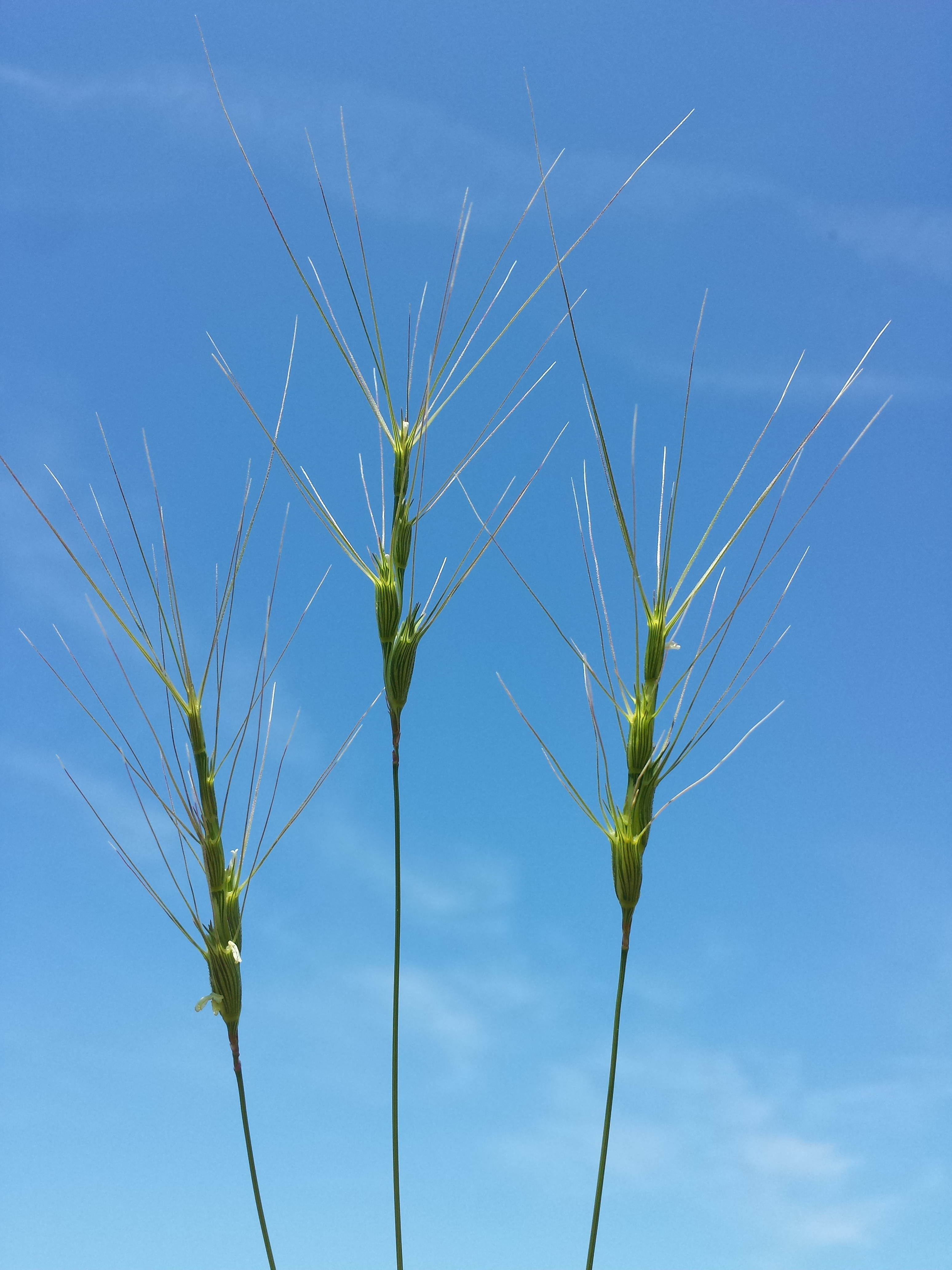 Spikes Taxonym: Aegilops triuncialis ss Rottensteiner: Exkursionsflora für Istrien ISBN 978-3-85328-067-6 Location: southweast of Stara Baška, community Punat, Krk, County Primorje-Gorski kotar, Croatia Habitat: rocks nearby seaside